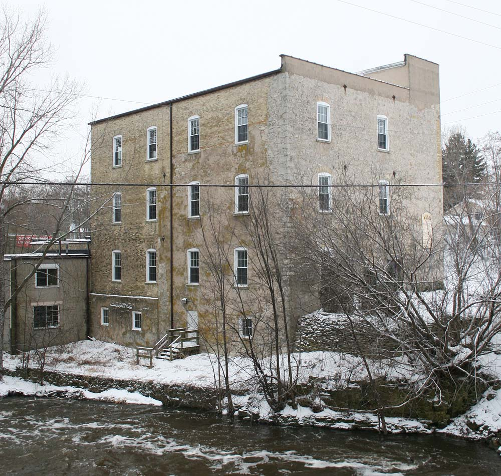 Grafton Flour Mill, Registered Historic Place in Grafton, Wisconsin. This is the back of the building, on the Milwaukee River. See also, File:Grafton_Flour_Mill_front_Dec09.jpg